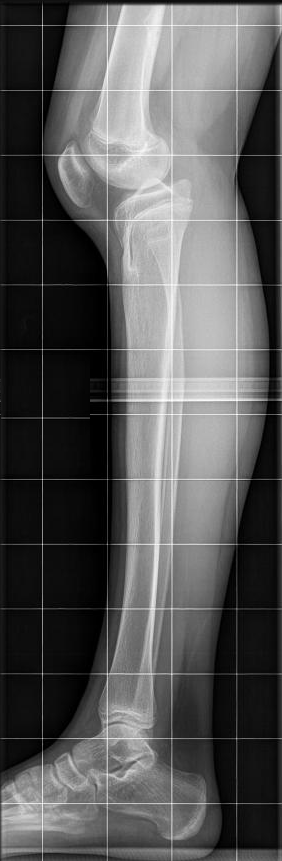 Genu recurvatum partial closure of growthplate, 15 y male